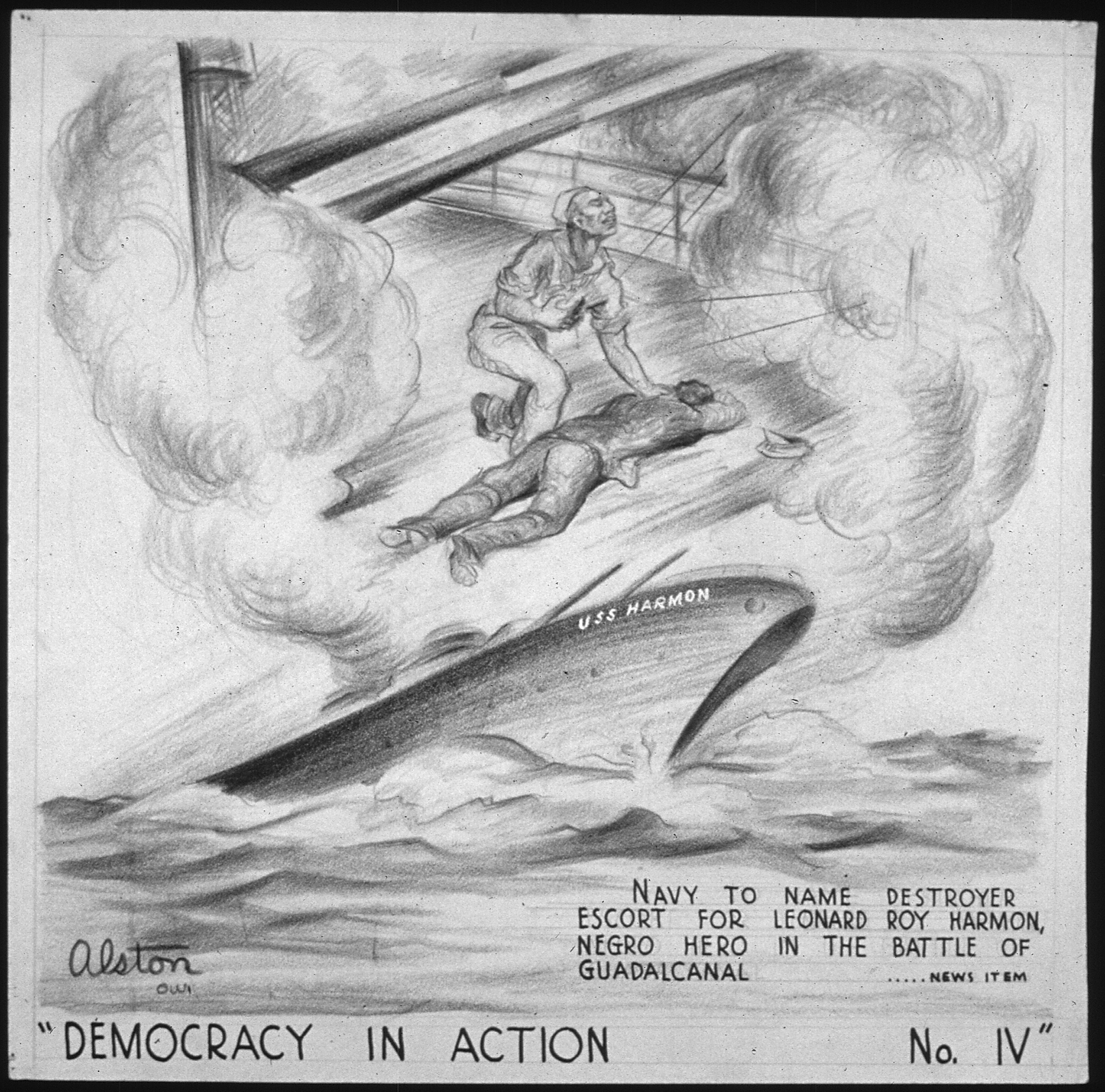 Scope and content: In honor of Lenard Roy Harmon - with caption.